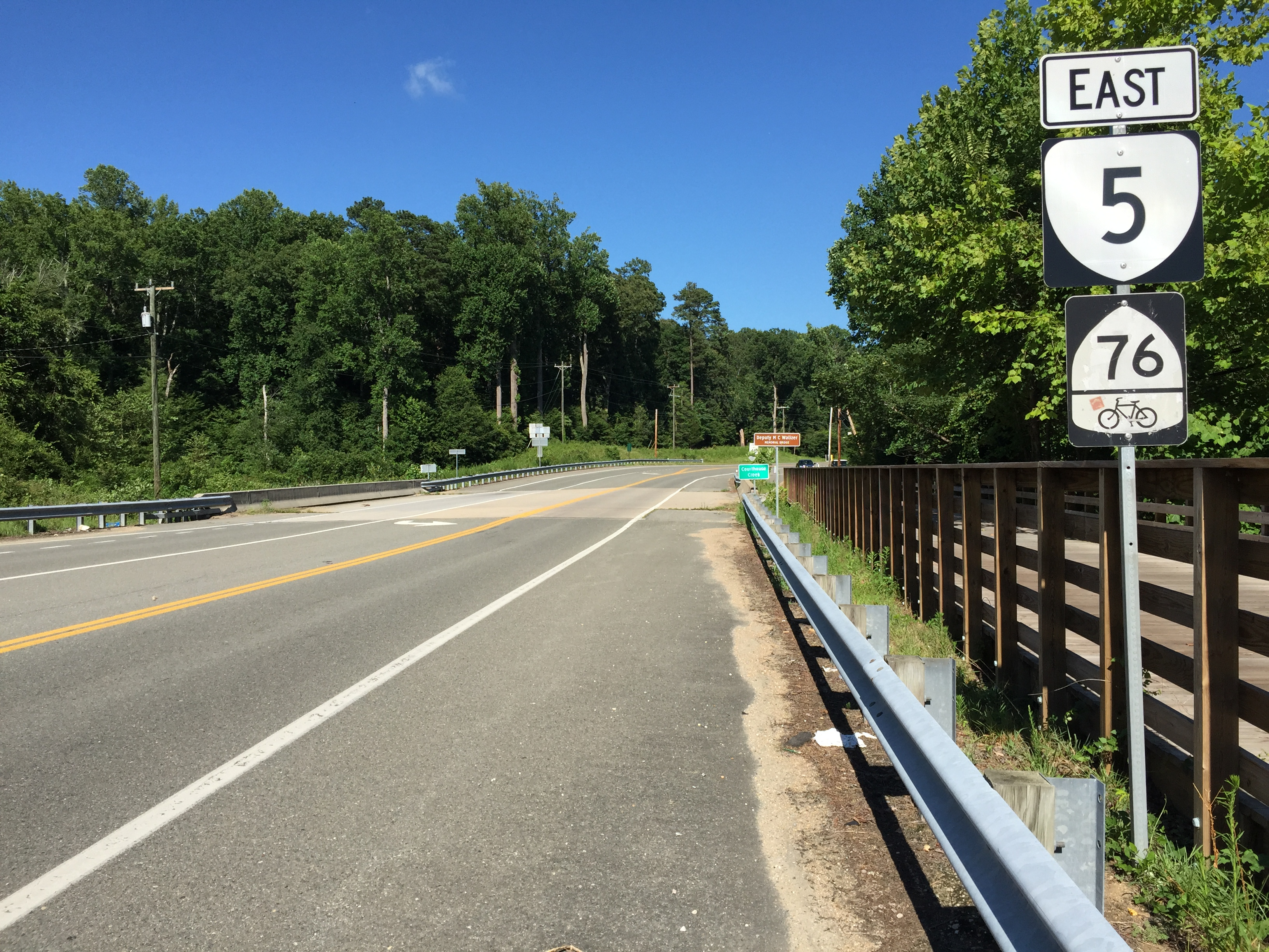 View east along Virginia State Route 5 (John Tyler Memorial Highway) at Virginia State Route 155 (Courthouse Road) in Charles City, Charles City County, Virginia